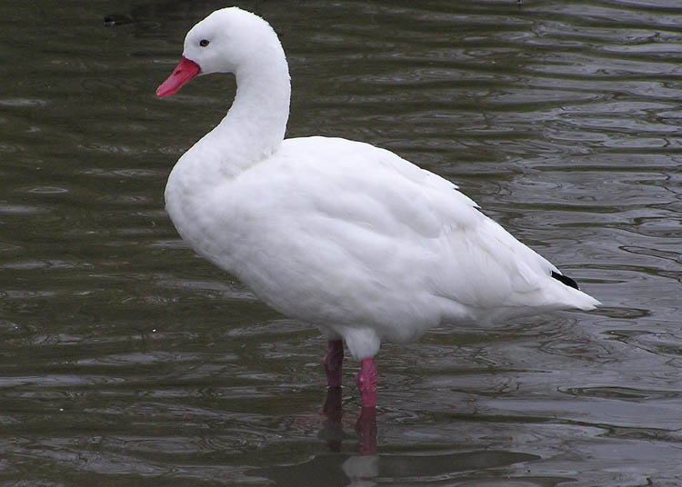 Coscoroba Swan at Slimbridge Wildfowl and Wetlands Centre, Slimbridge, Gloucestershire, England.